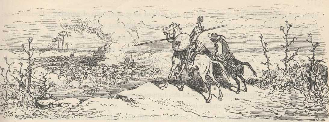 Illustration from Don Quizote by Gustave Doré.